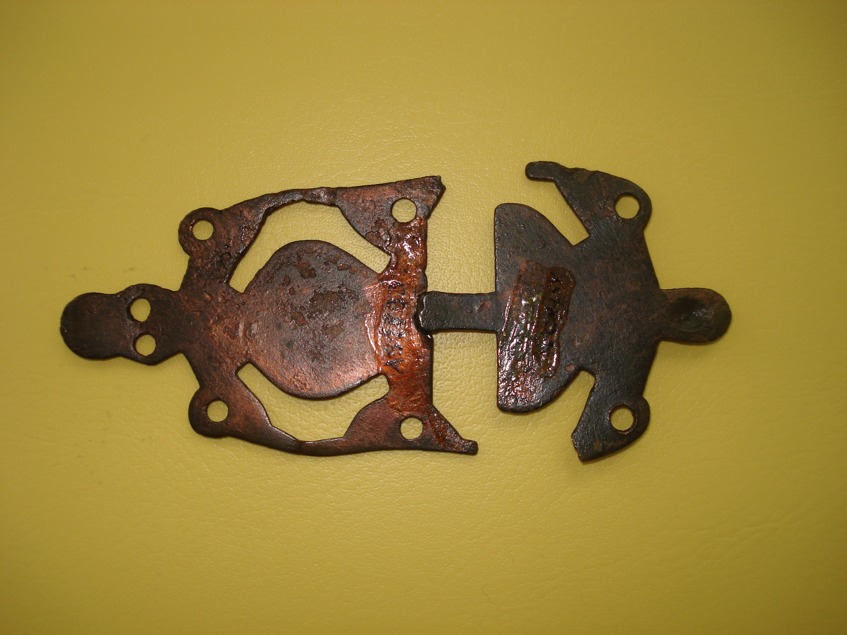 Anthroposomorphic pseudofibula